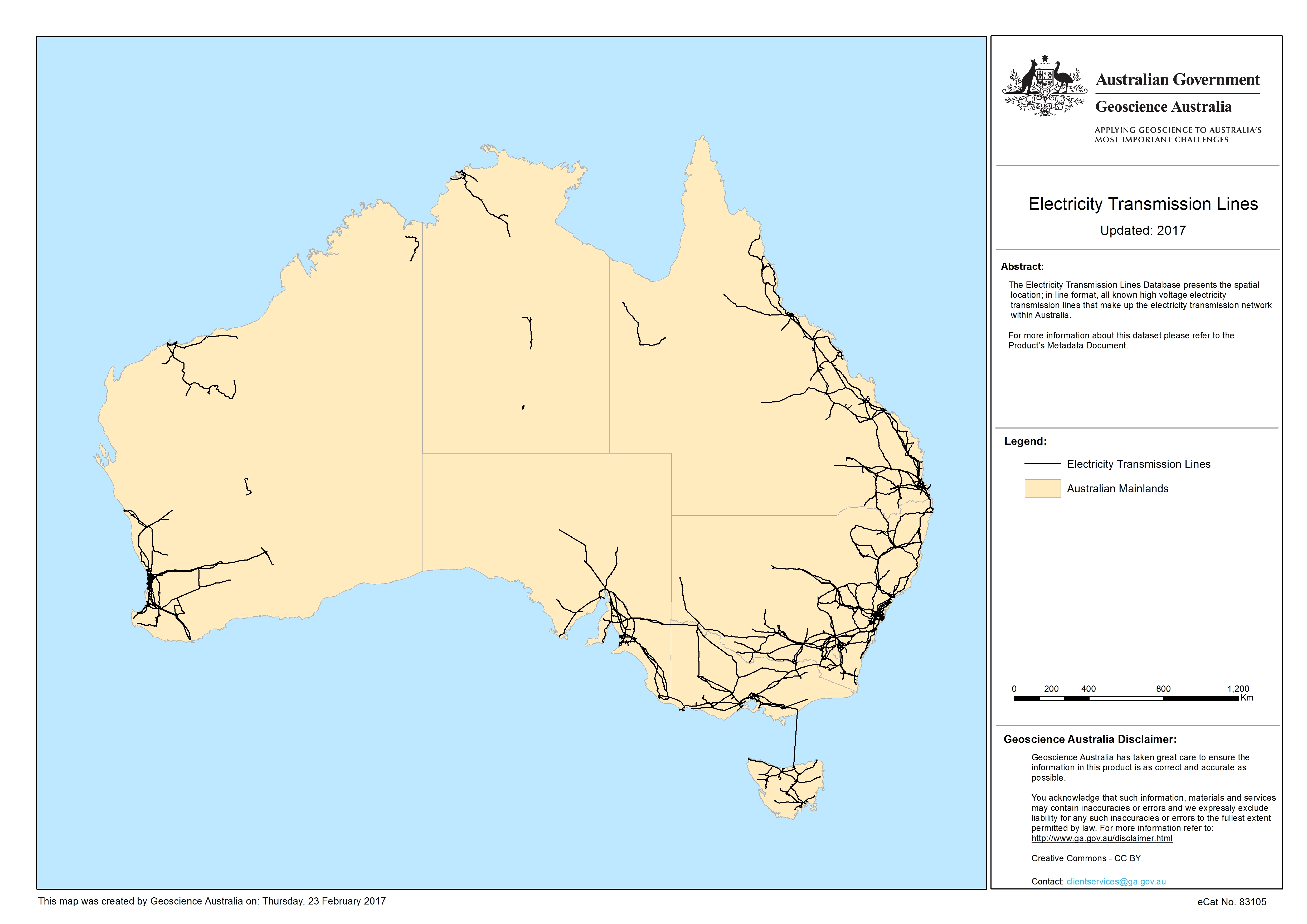 Map of National Electricity Transmission Lines in Australia